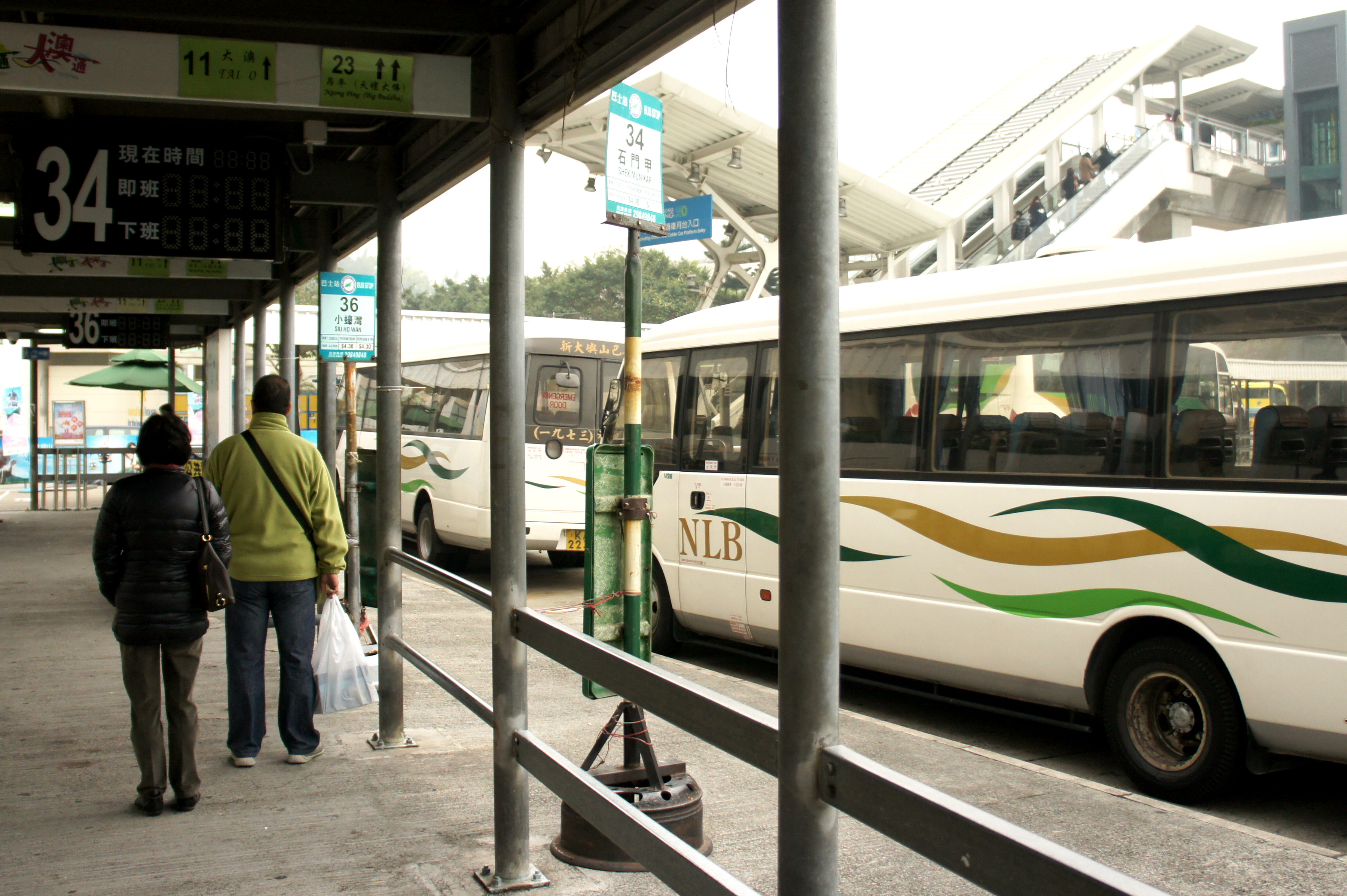 New Lantao Bus Route 34, Tung Chung Bus Terminus, Lantau Island, Hong Kong.